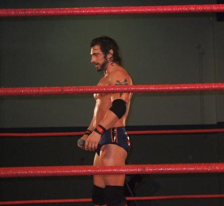 A picture of Austin Aries i took at PWG show in Cincinnati Ohio in 2006